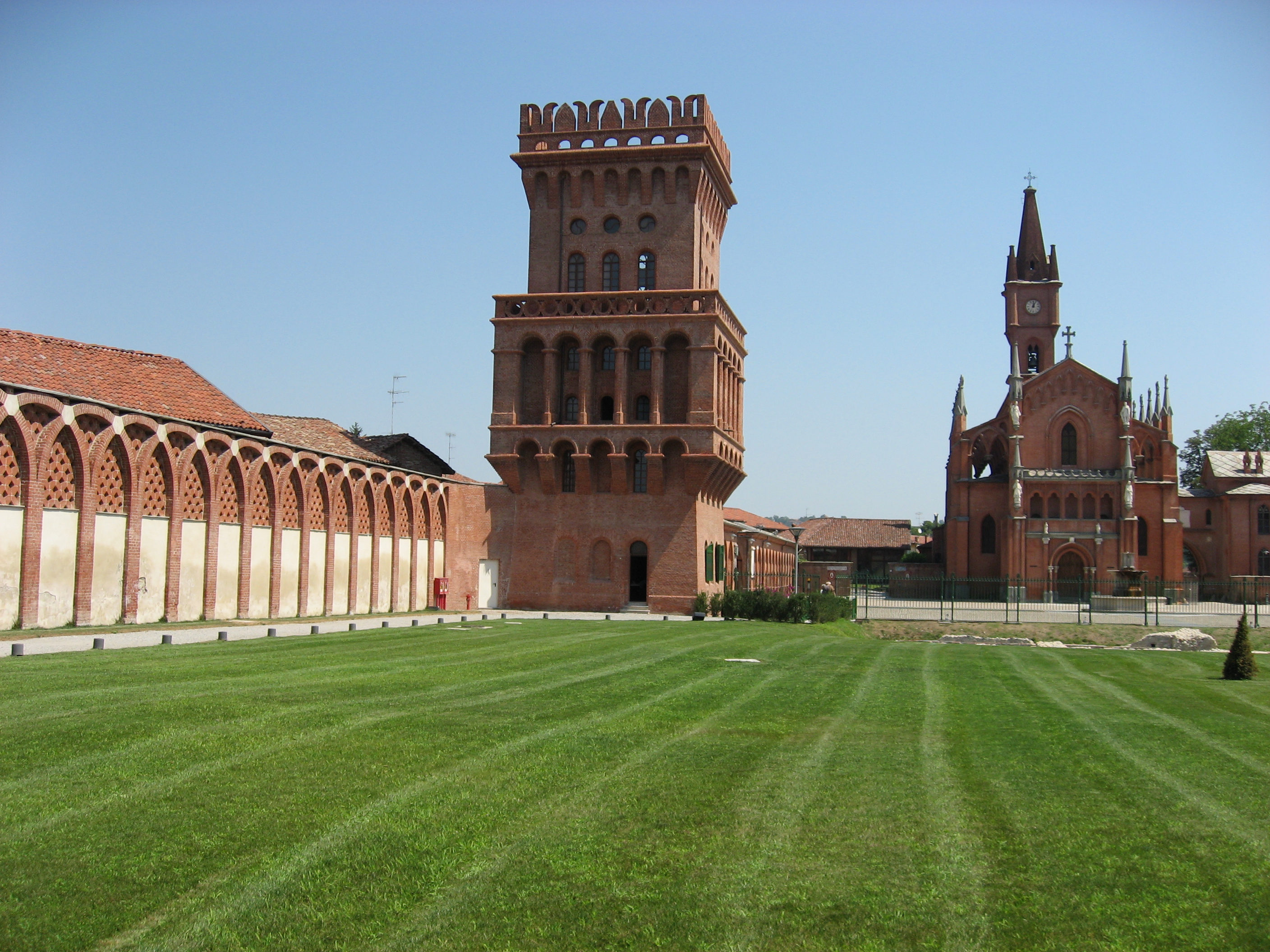 Tower and Church in Pollenzo (Provincia di Cuneo, Piemonte, Italy)